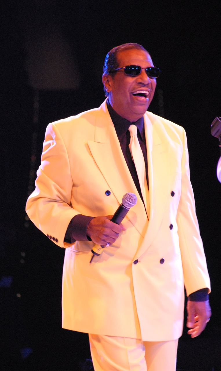 Fred Parris performing at Westbury Music Theater - NY